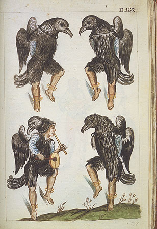 Image 169 from work Trujillo del Perú. Vol. II. Drawing ordered by the bishop of Trujillo of the Viceroyalty of Peru, Baltasar Martínez Compañón, that shows the Danza de los Gallinazos.